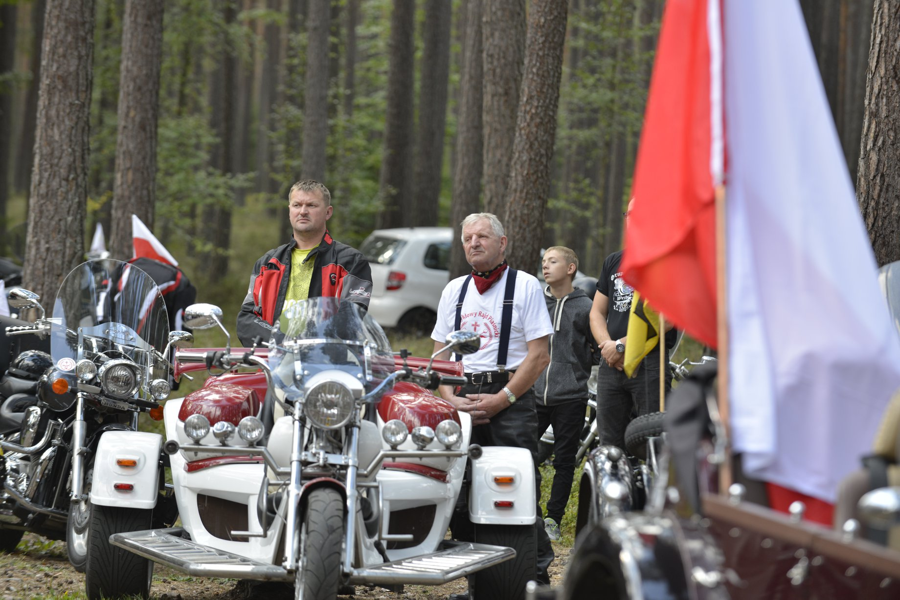 First edition of the Piaśnica Raid Motocross in September 2018, commemorating victims of the Piaśnica massacre.